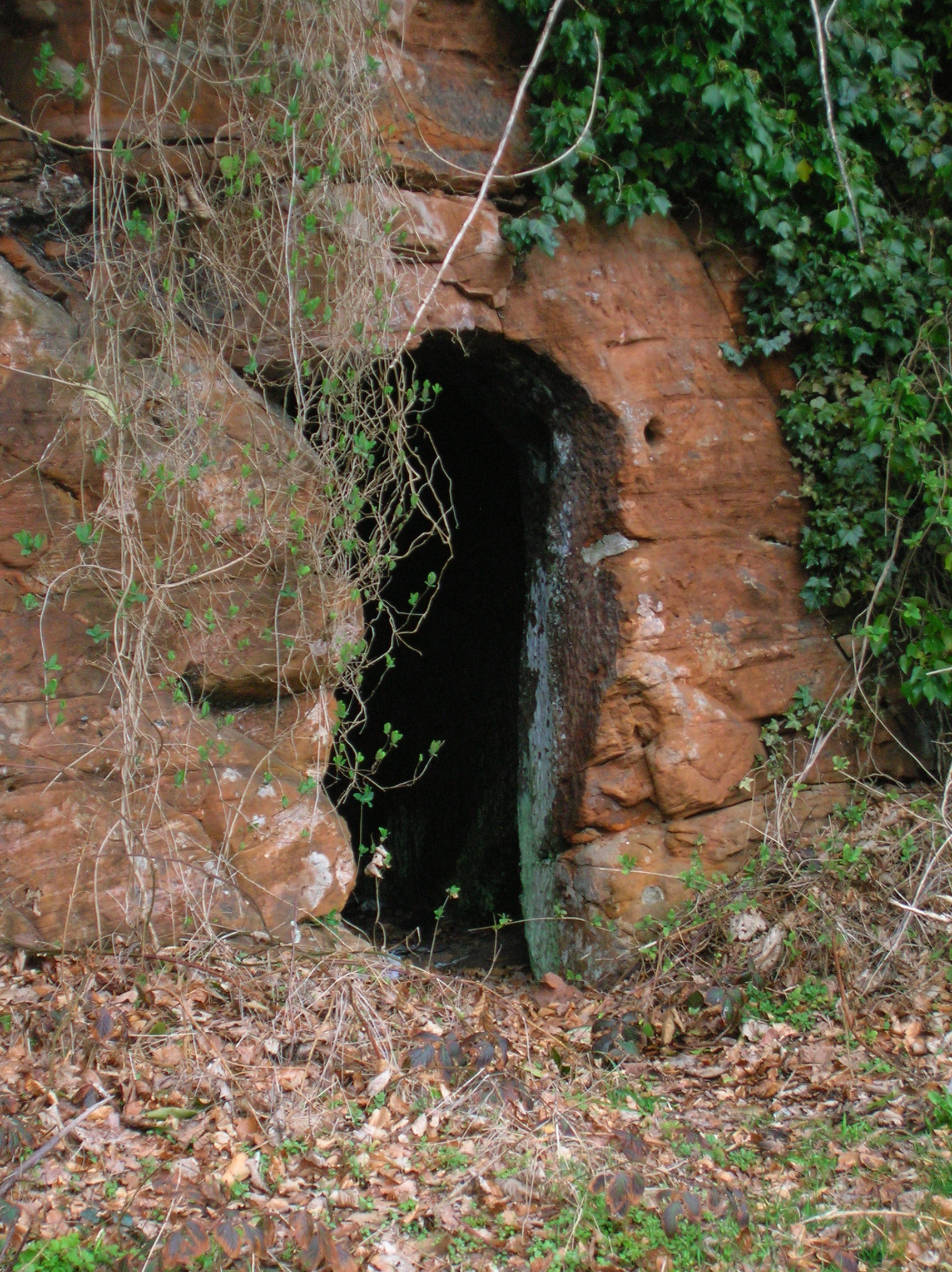 Red sandstone cave, Old Barskimming Bridge, Mauchline, East Ayrshire, Scotland.